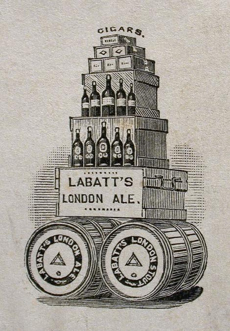 Engraving, Labatt's London Ale, John Henry Walker (1831-1899), 1850-1885, Ink on paper on supporting paper - Wood engraving - 7 x 4.7 cm